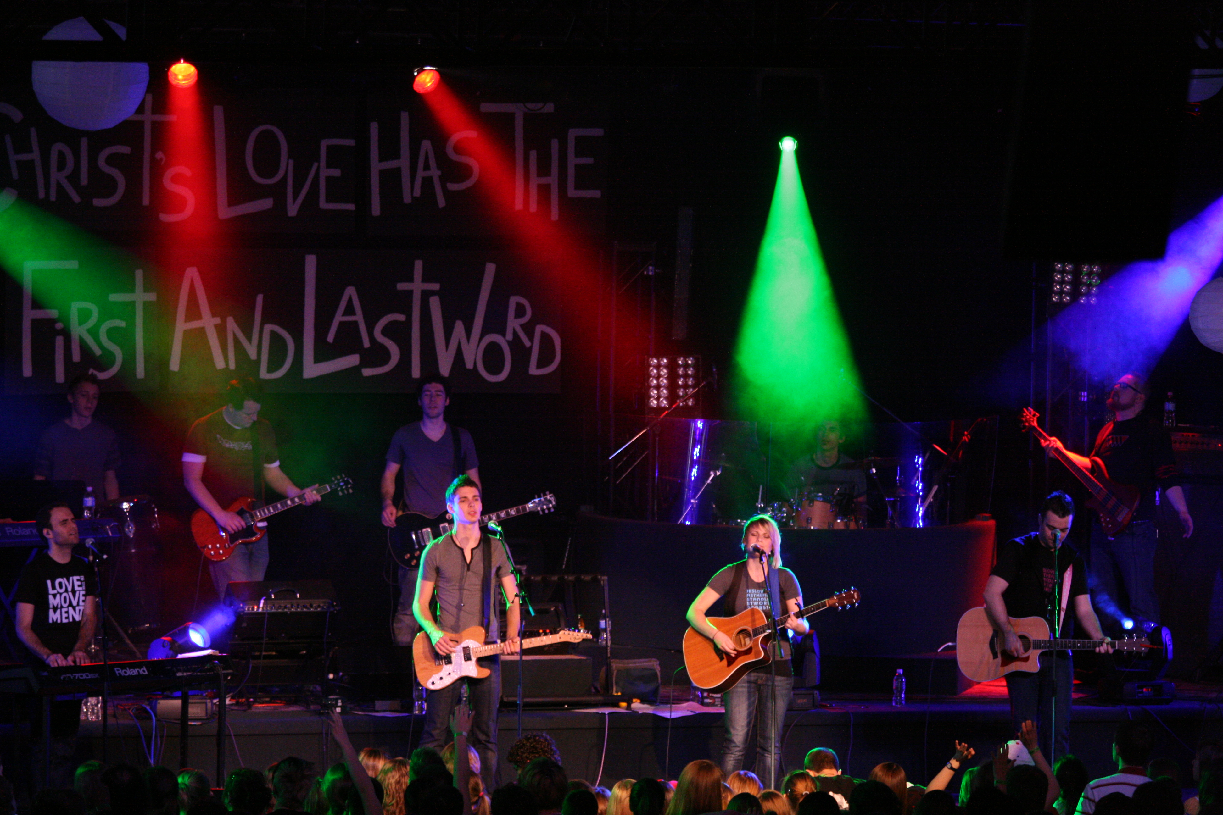 The Freshwind Band, live at Toronto Airport Christian Fellowship, in Toronto, Ontario, Canada.